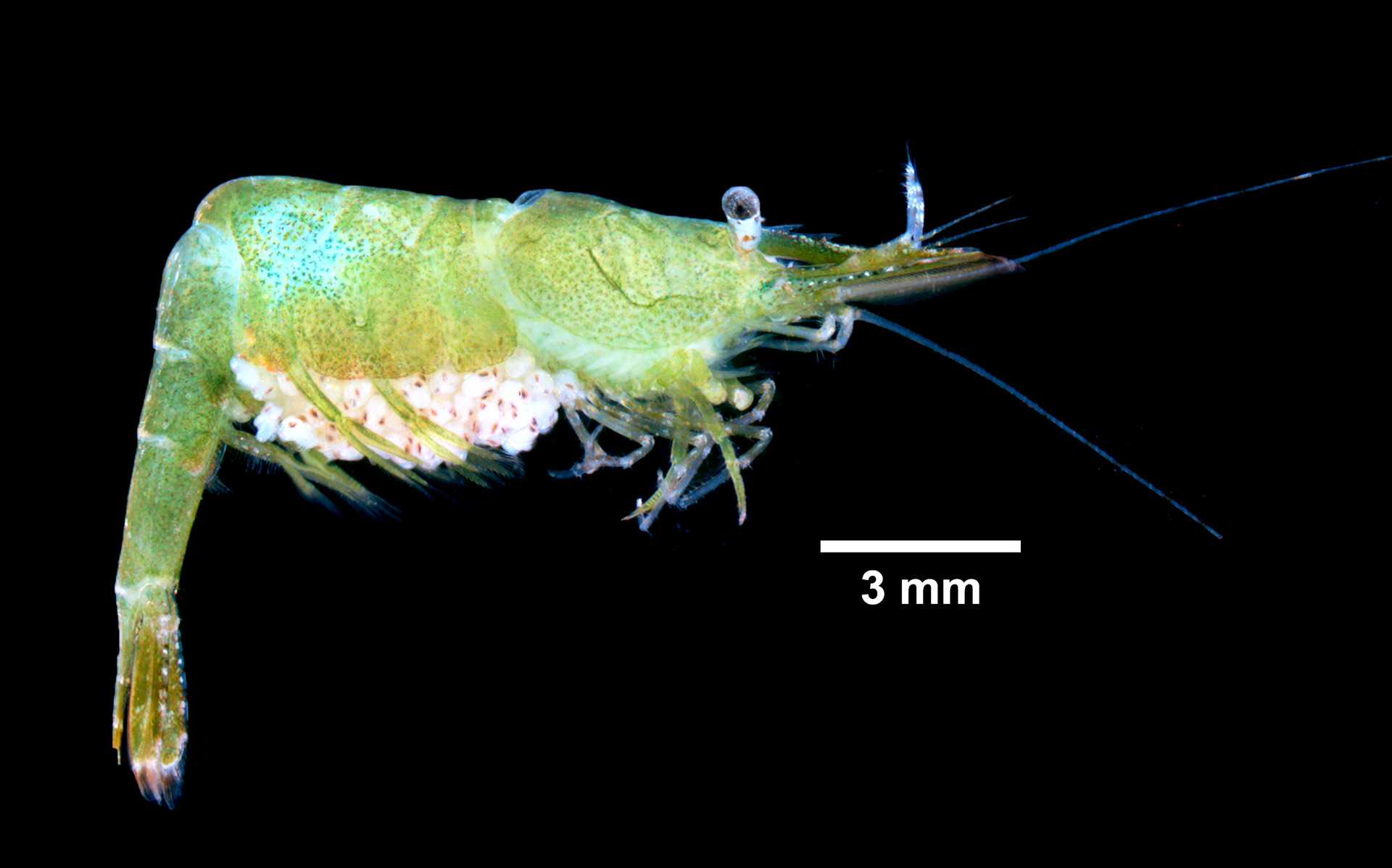 PRESERVED_SPECIMEN; ovigerous; 70% alc.; Det. by: Eric A. Lazo-Wasem 2016; IZ number 84504; lot count 1; specimen; female; ovigerous; 2016-09-06T00:00:00Z